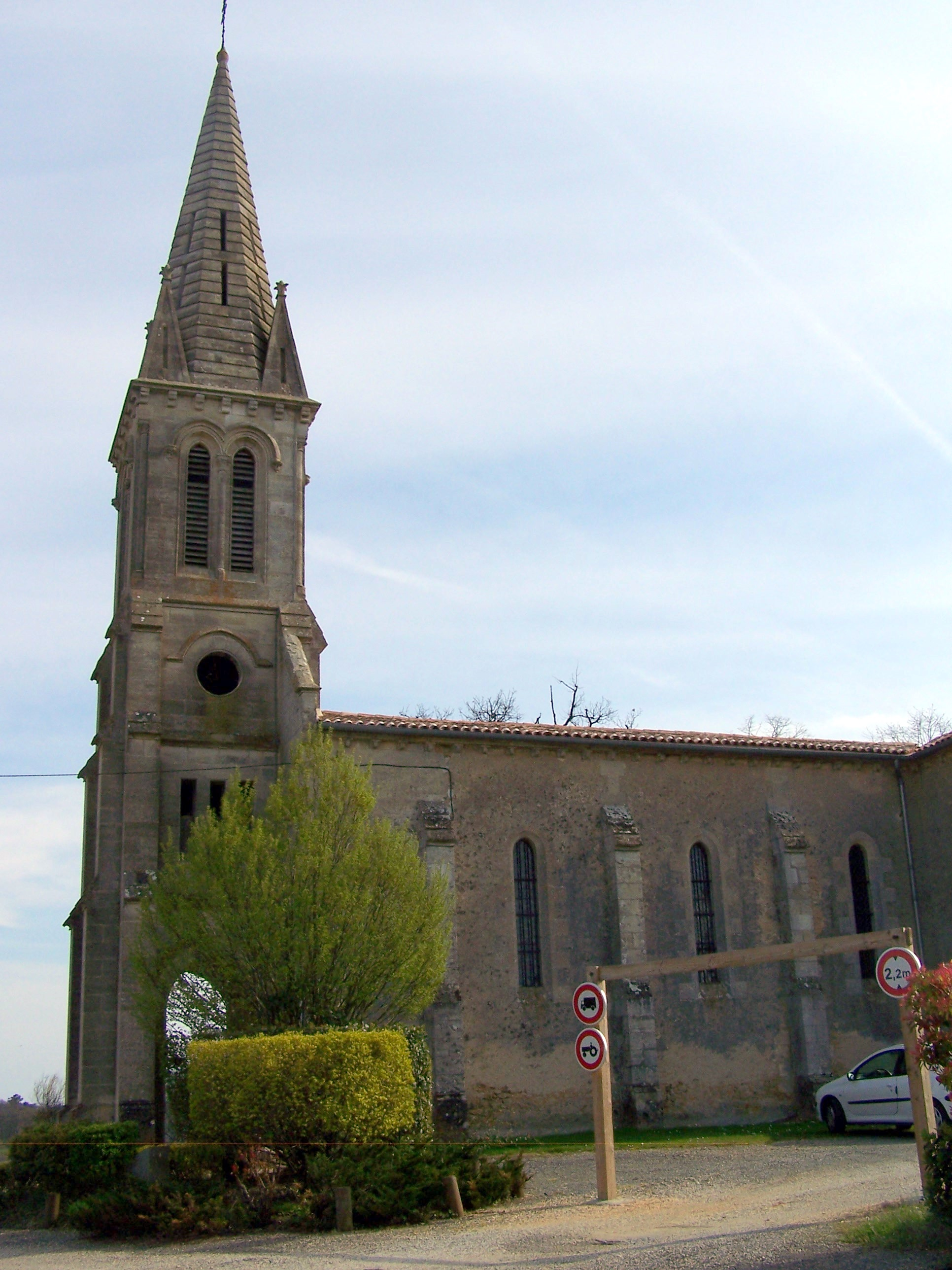 Church of Saint-Germain-de-Grave (Gironde, France)